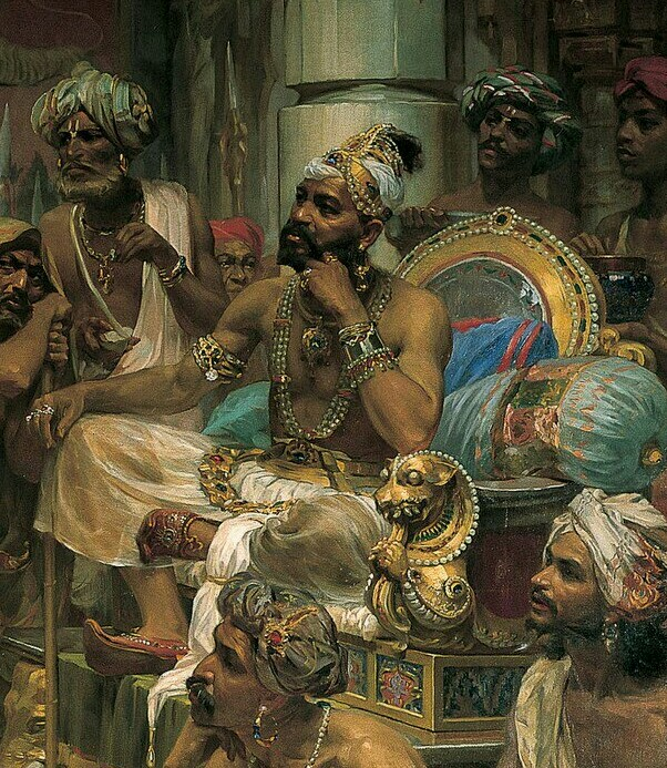 Painting depicting the Zamorin of Calicut